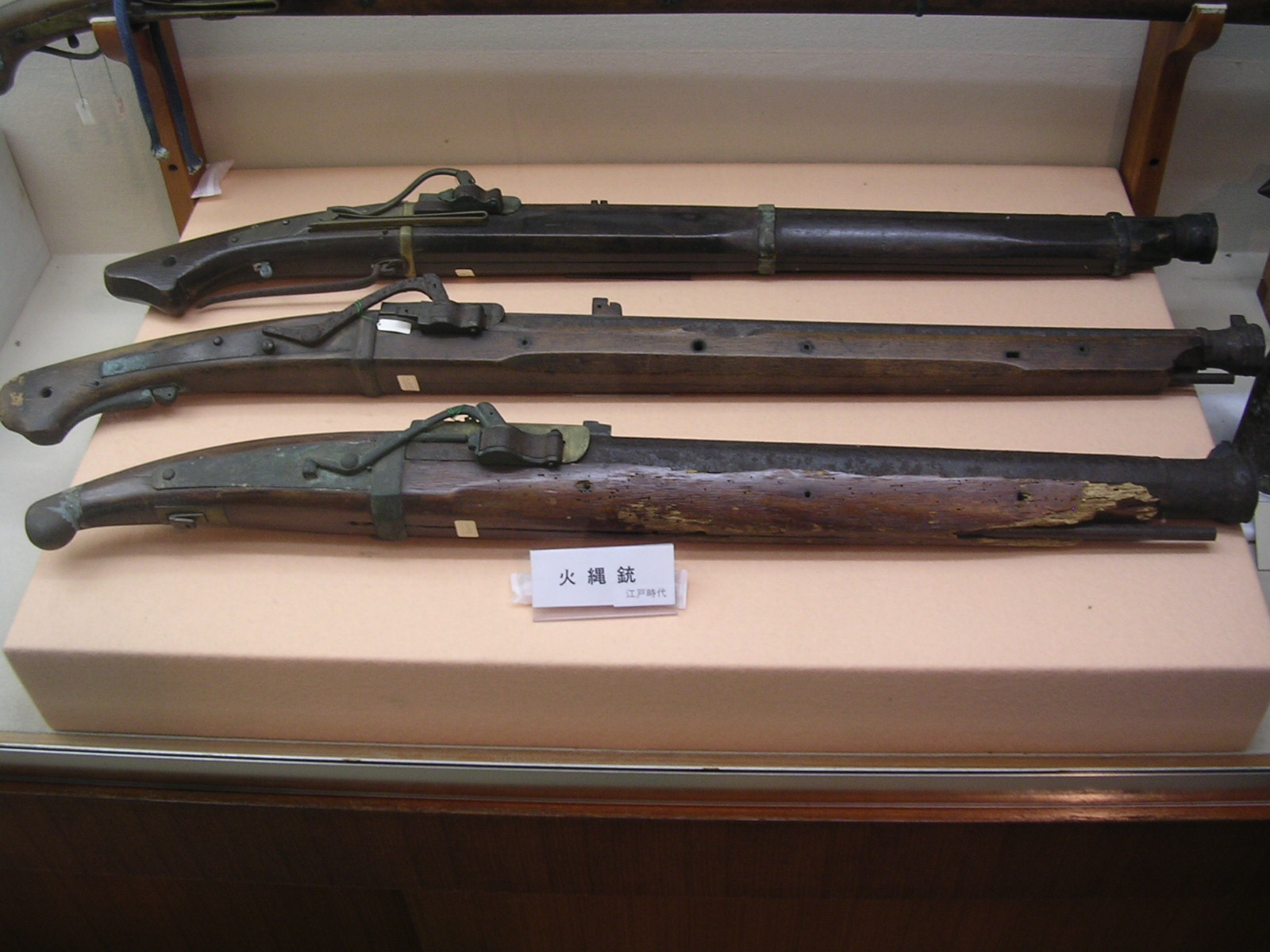 Japanese rifles of the edo period taken in Tokaido Museum (?), Hakone, Japan